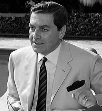 Screenshot from Una vita difficile (1961)